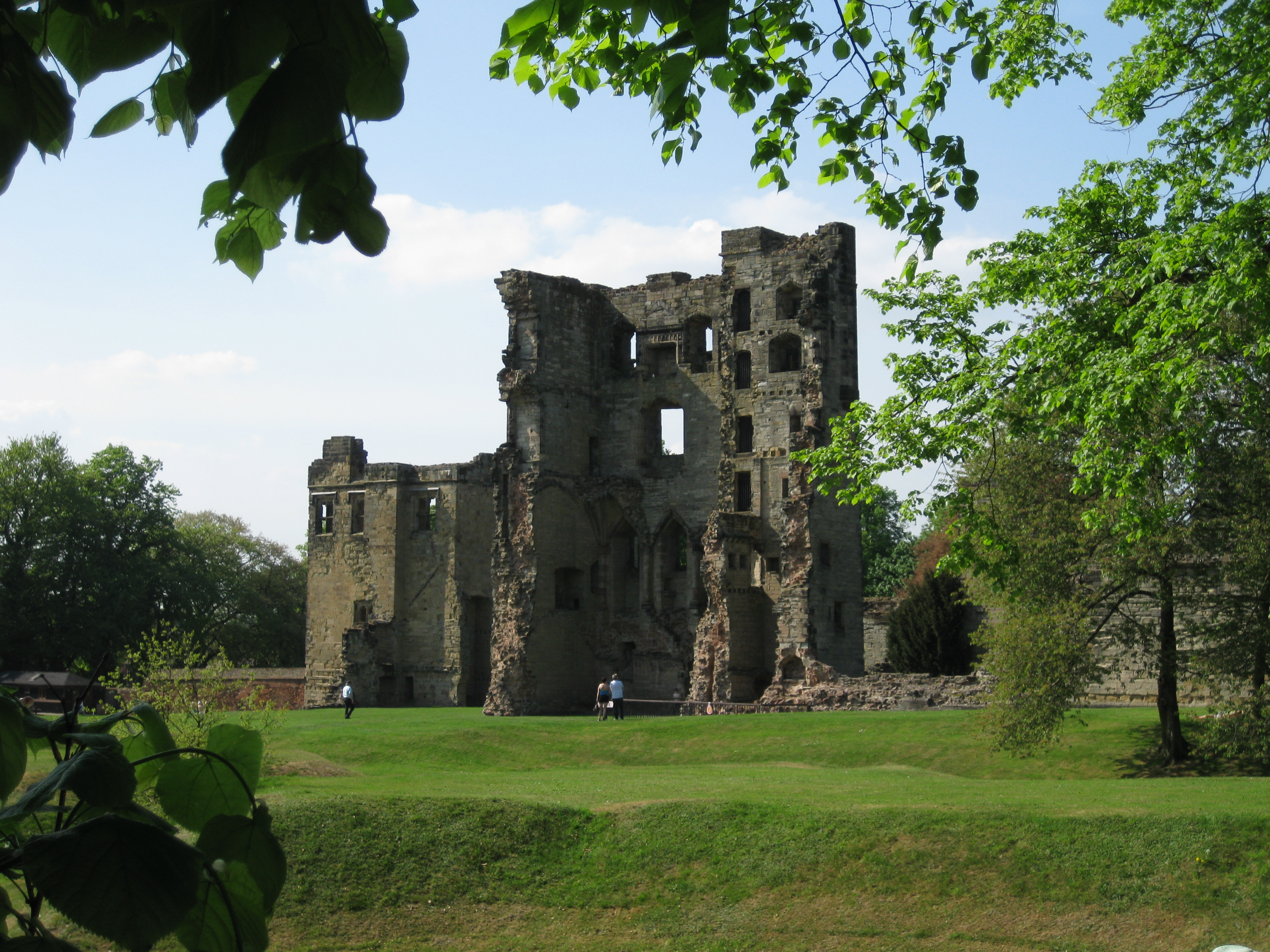 A view through the trees of ashby de la zouch castle